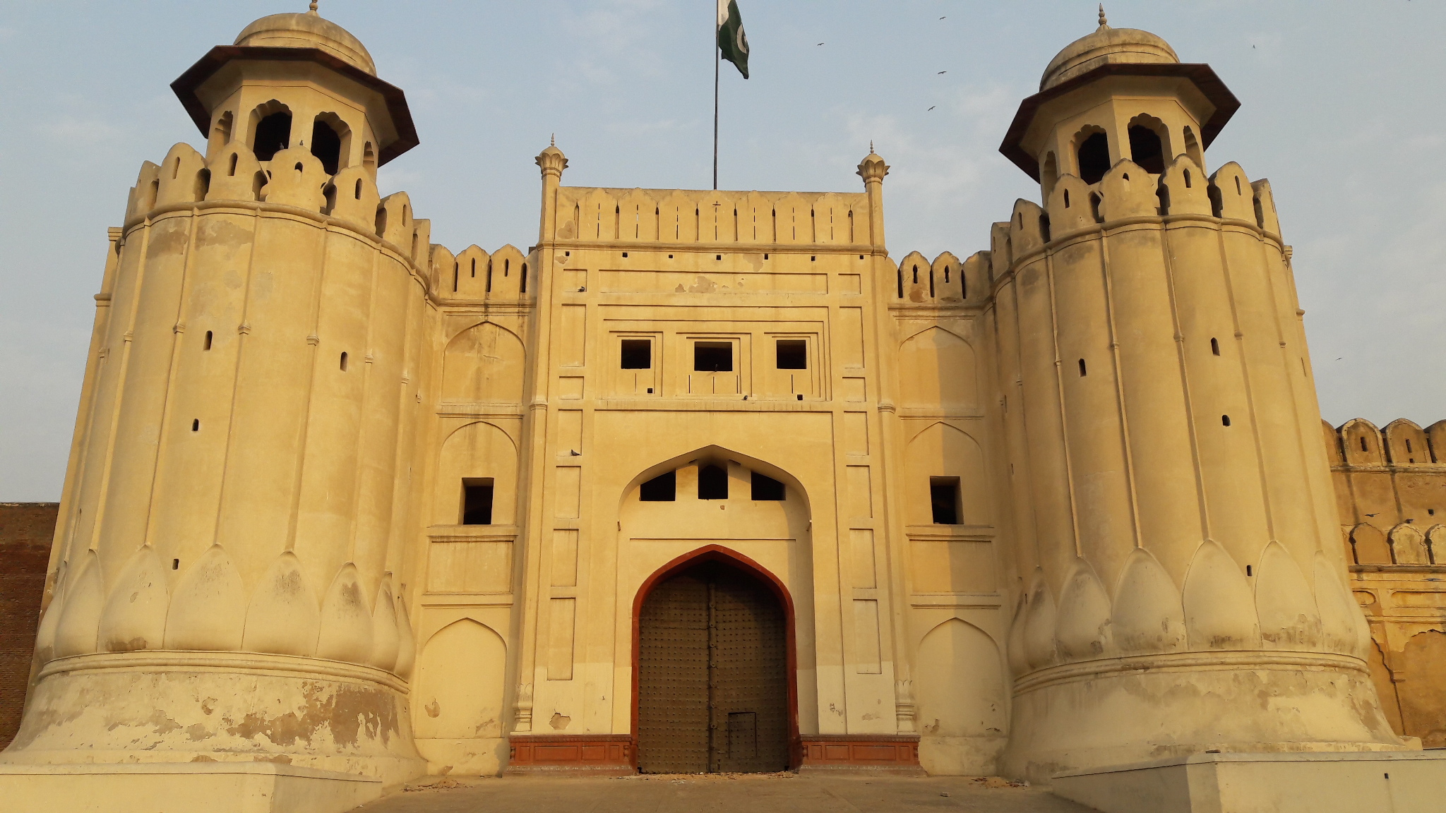 Lahore Fort